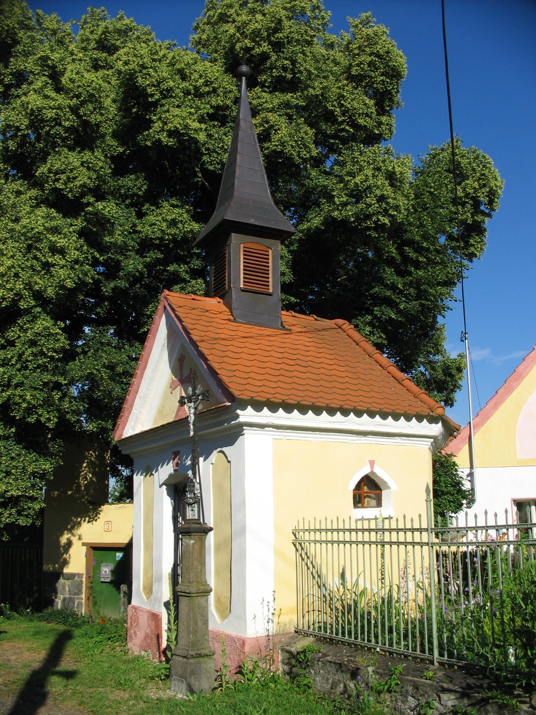 Chapel in Tažovická Lhota, Strakonice District, Czech Republic